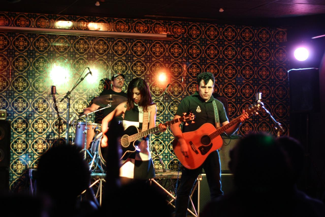 Brazilian group Autoramas, Bar Valentino, Londrina, April 2010